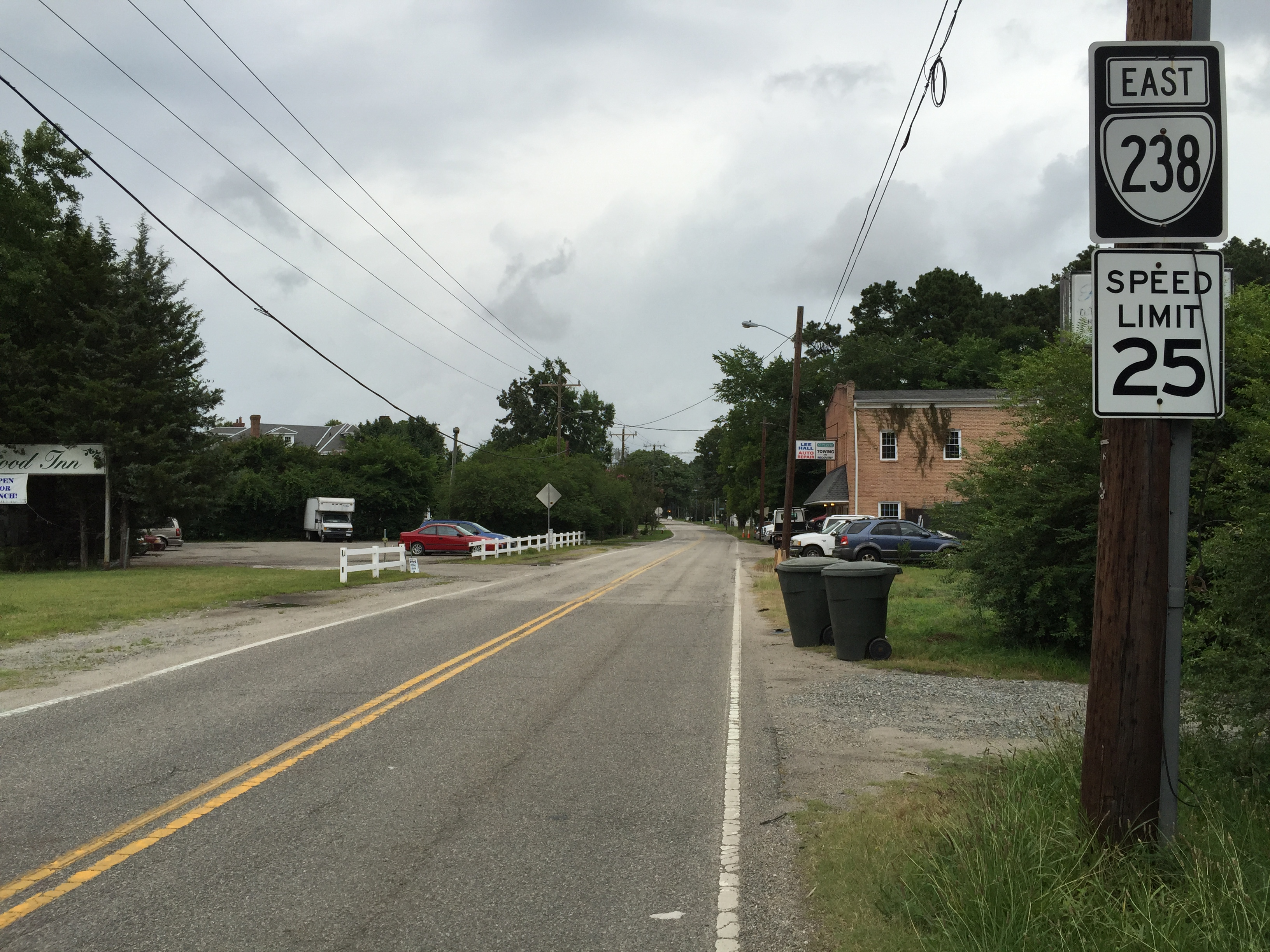 View east along Virginia State Route 238 (Yorktown Road) at U.S. Route 60 (Warwick Boulevard) in Newport News, Virginia